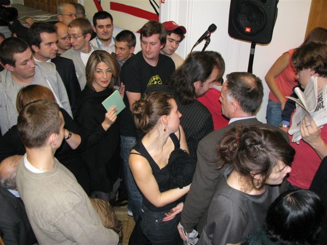 Naomi Klein (b. May 5, 1970), Canadian journalist, author and activist, best known for her book "No Logo".